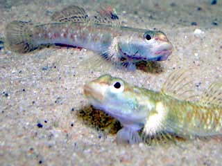 Rhinogobius duospilusThis image is taken by me, Neale Monks, of two fishes in my care. It is released for free use. Category:Perciformes images